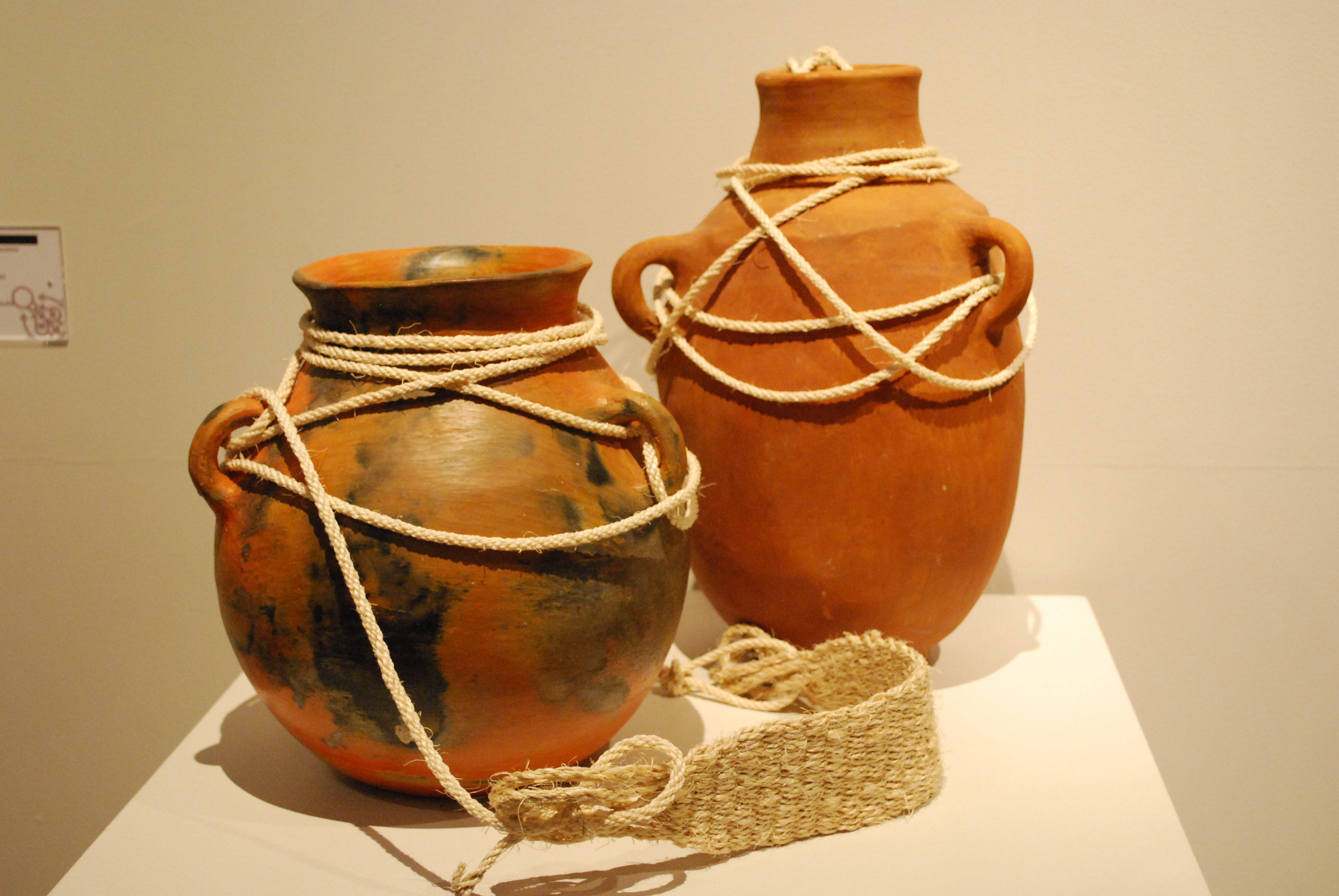 Cantaro by Hermania Consuelo Vite of Olotla, Metztitlan and a pulque container by Lucia Lugo Chavez of Jose Maria Pino Suarez Tepetitlan, Hidalgo at a temporary exhibition dedicated to Hidalgo at the Museo de Arte Popular, Mexico City